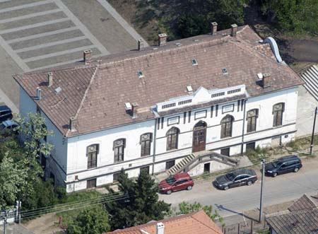 This picture is © copyright Civertan Grafikai Stúdió (Civertan Bt.), 1997-2006.; has been verified that Commons user Civertan is controlled by Civertan Grafikai Stúdió and that it is allowed to relicense content copyrighted to this organization. This work is free and may be used by anyone for any purpose. If you wish to use this content, you do not need to request permission as long as you follow any licensing requirements mentioned on this page.